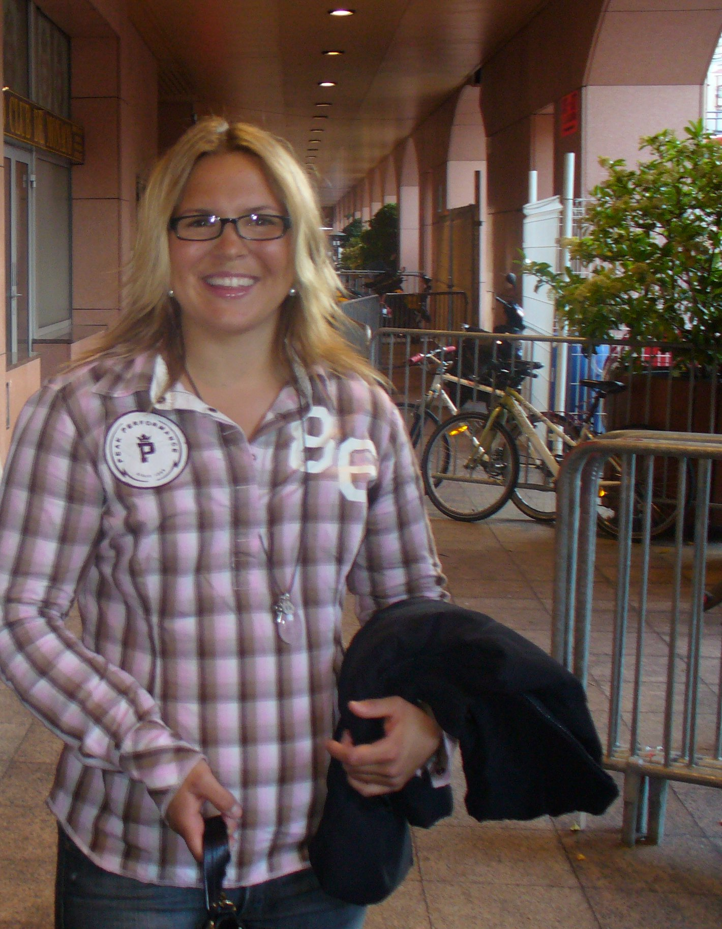 Swedish alpine skier Anja Pärson relaxing in Monaco during the Formula One week.